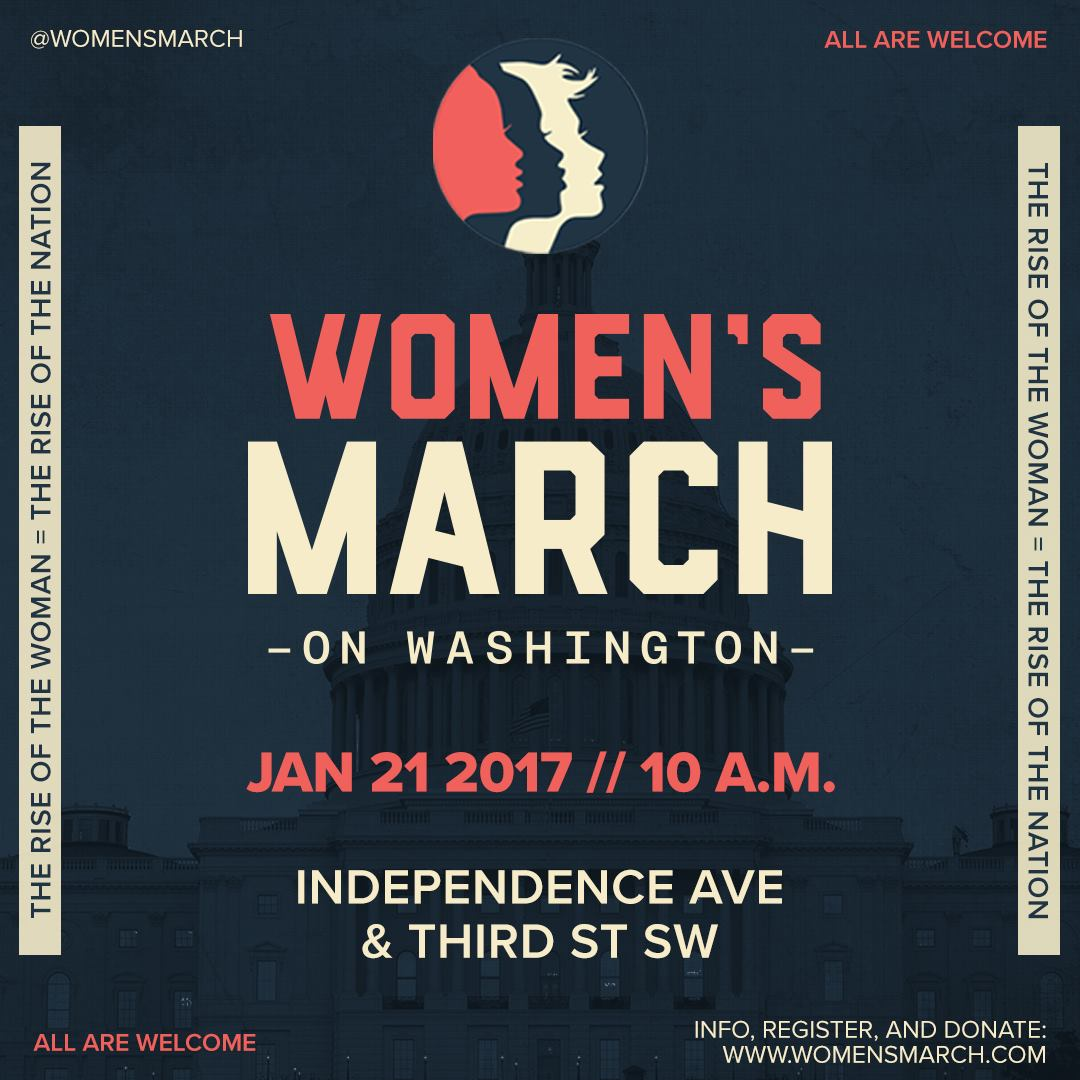 This image displays details for the Women's March on Washington in 2017.